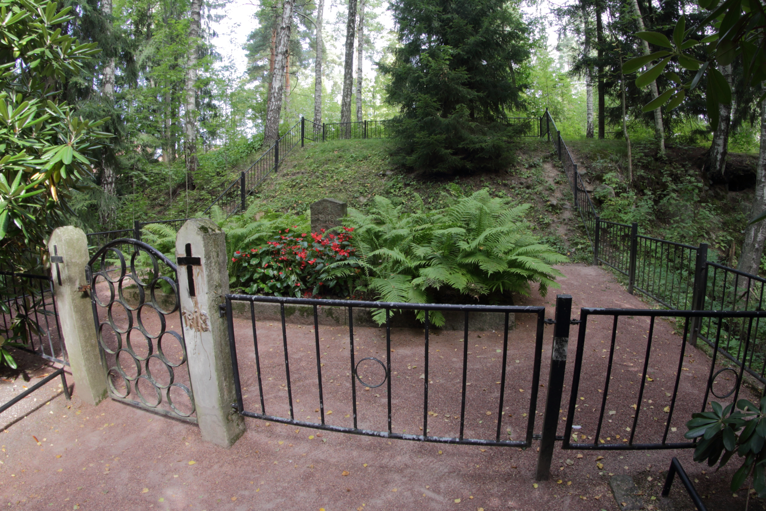 Pohjois-Haagan veljeshauta – muistomerkki ja aitaus